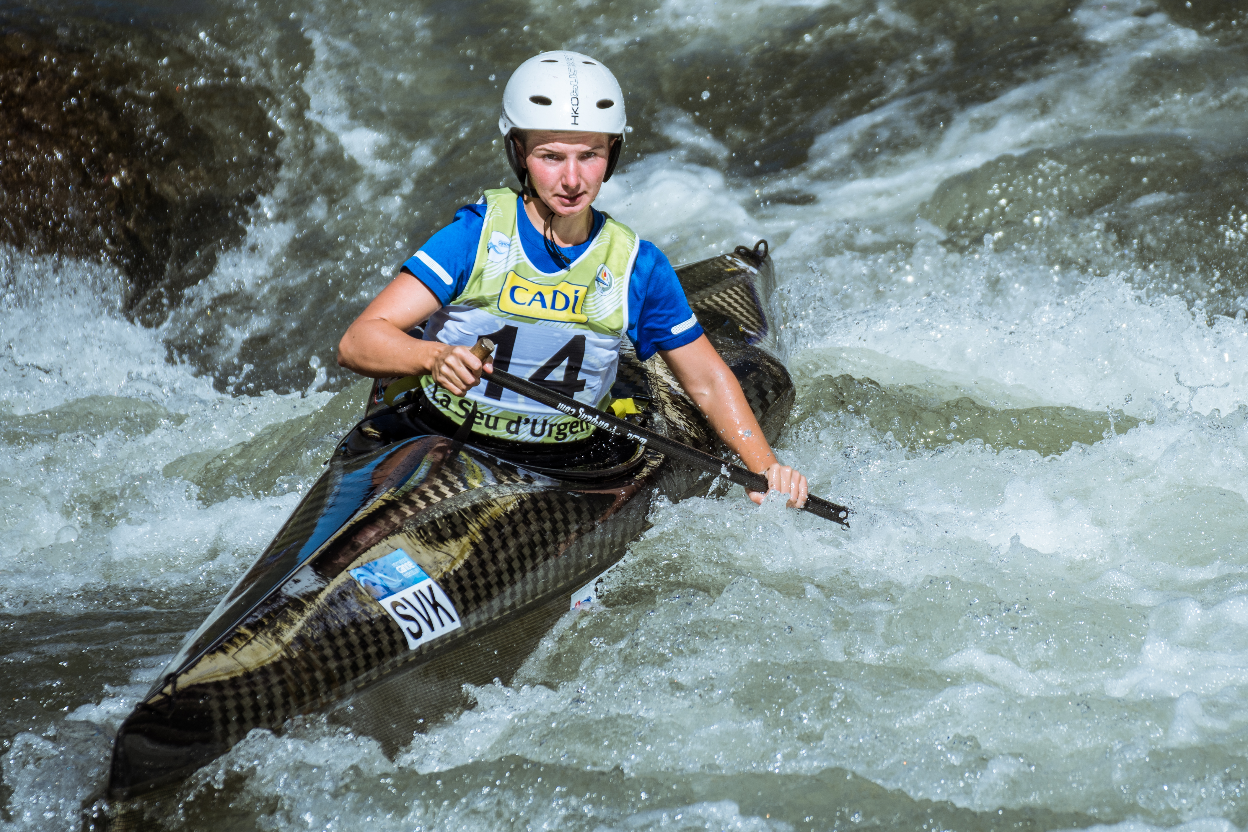 Viktória Scholczová during the 2019 Canoe Wildwater World Championships in La Seu d'Urgell, Spain.